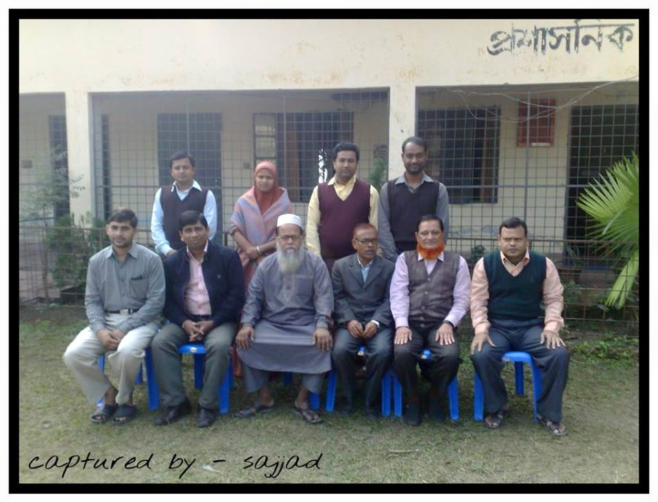 Teachers of Basail Govindo Govt. High School